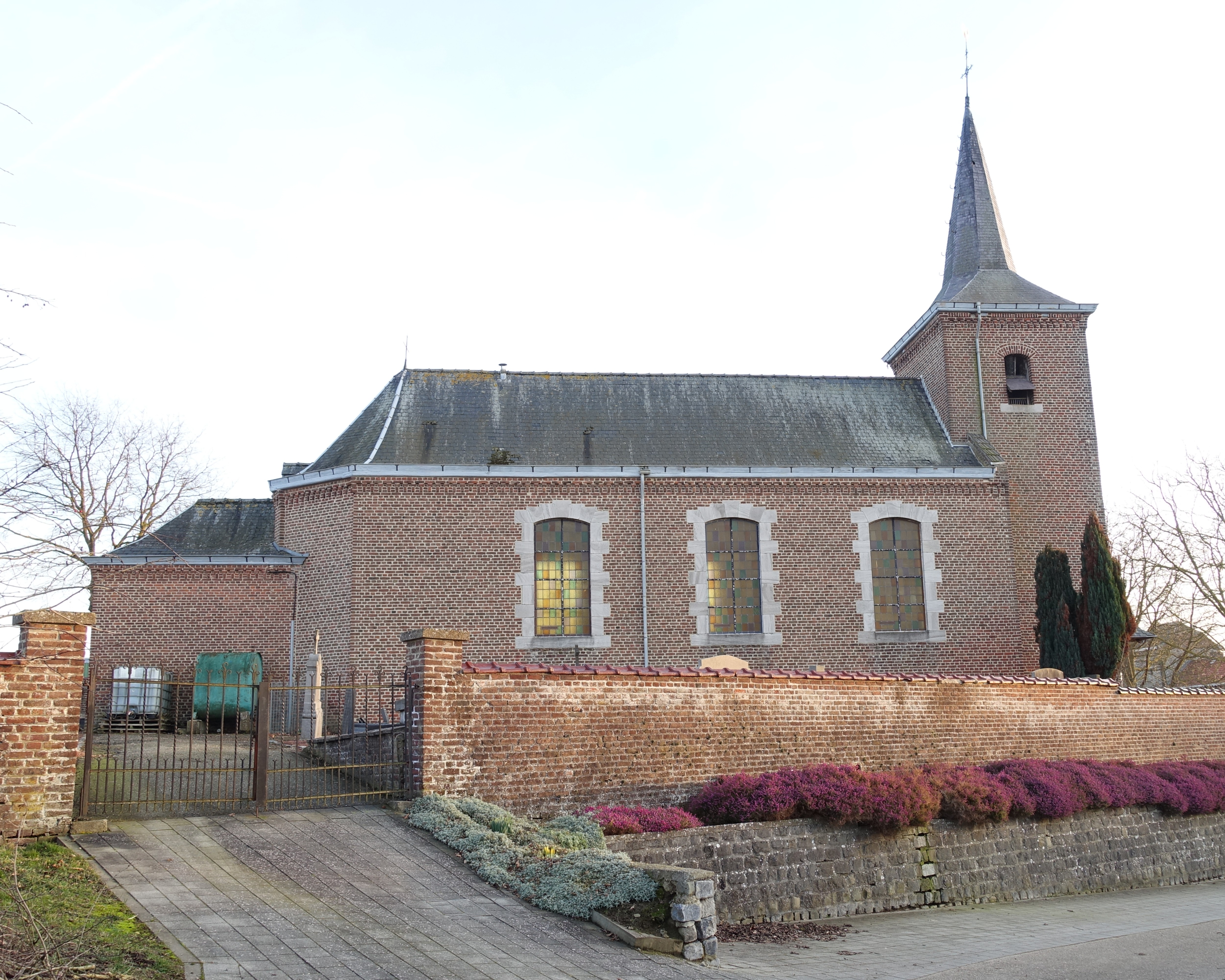 Church of Saint Stephen in Batsheers, Heers, Limburg, Belgium